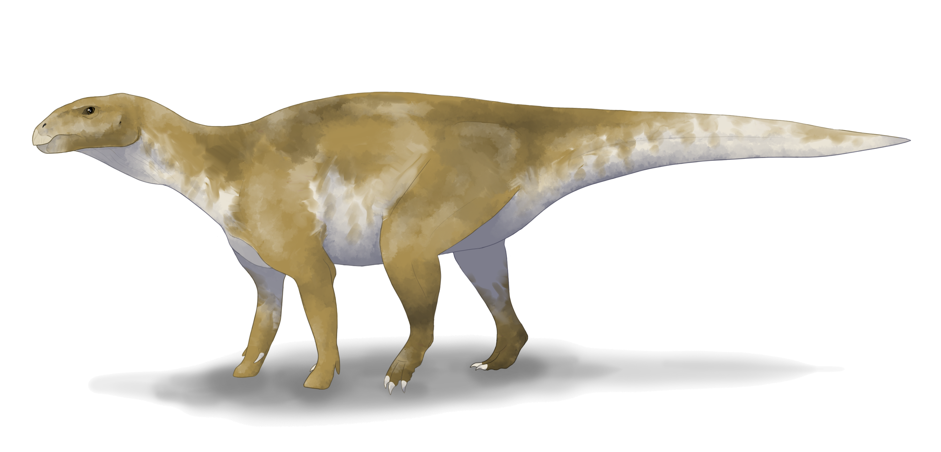 A restoration of Eolambia caroljonesa based on skeletal diagrams and fossils.